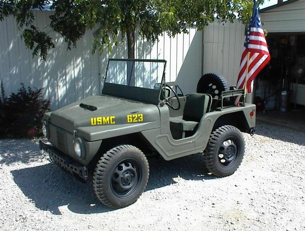 1961 M422 Mighty Mite 65" wheelbase